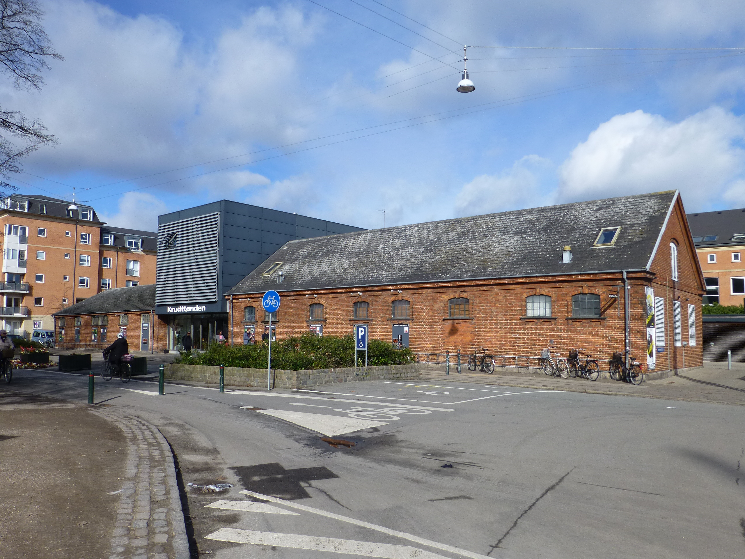 The culture house Krudttønden at Serridslevvej in Østerbro in Copenhagen.